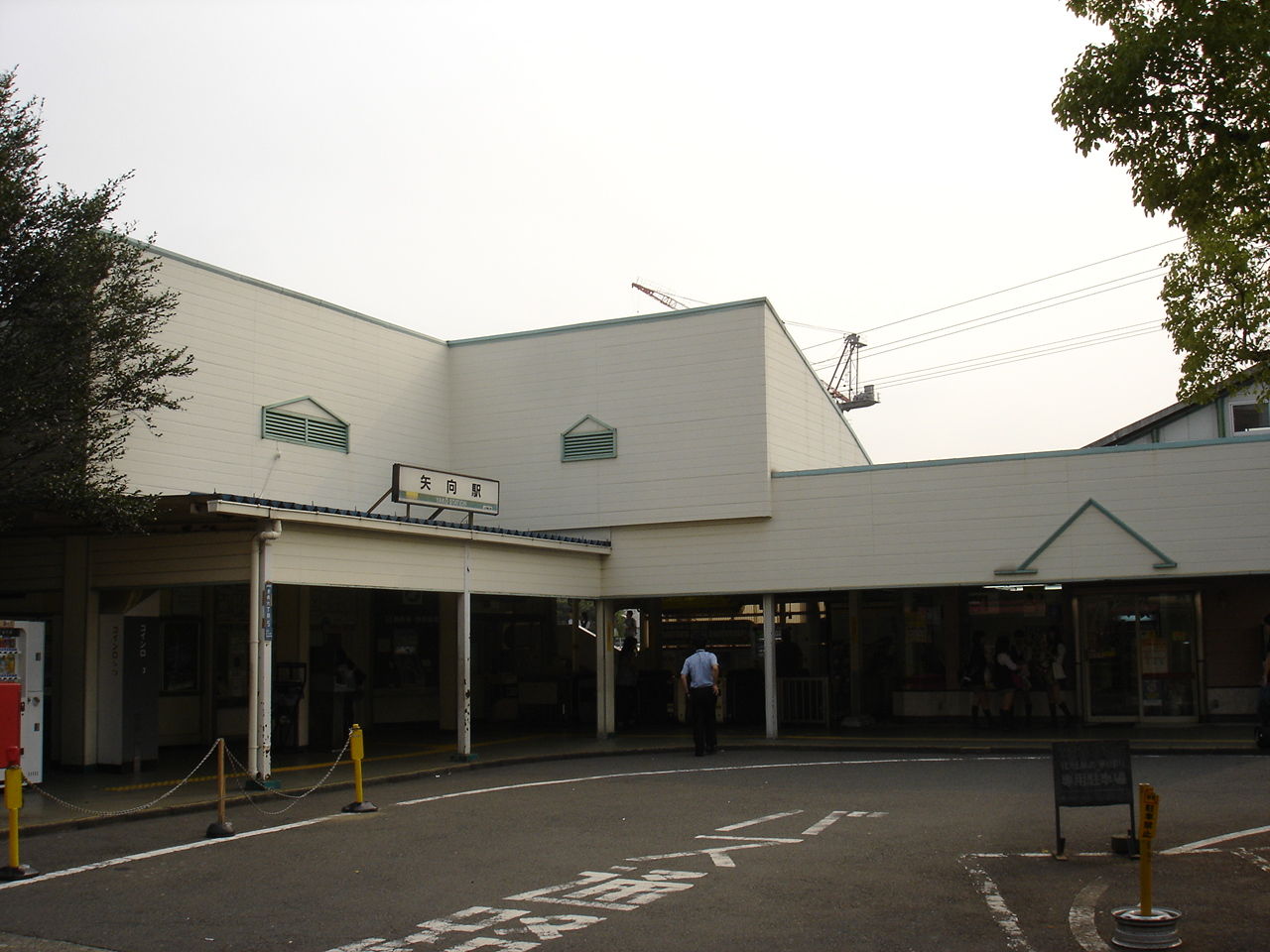 Yakō Station on the Nambu Line in Tsurumi-ku, Yokohama, Japan